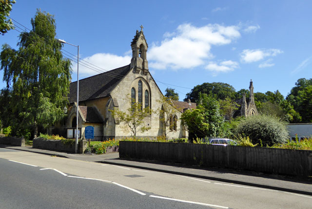 St Peter's parish church, Bath Road, Devizes, Wiltshire, seen from the west